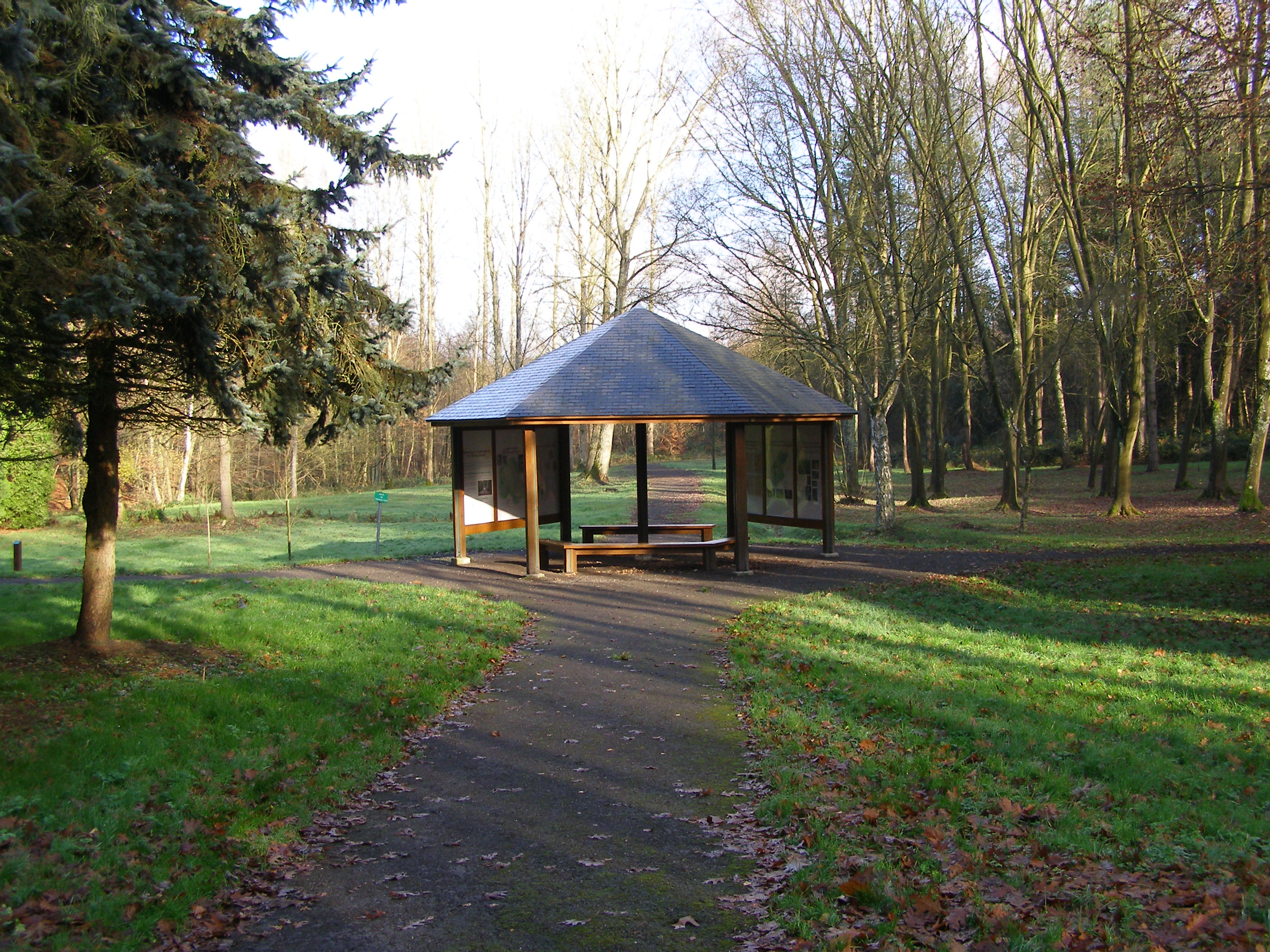 Information Center.